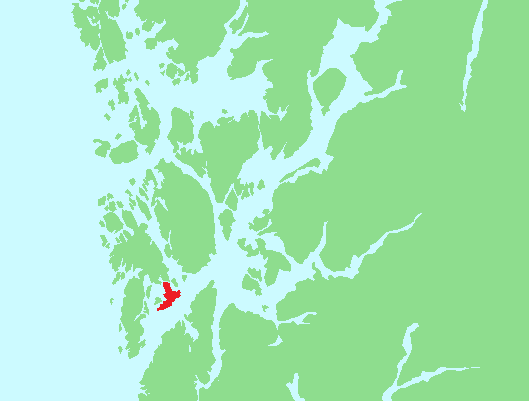 The island Moster in Bømlo, Hardanger, Norway